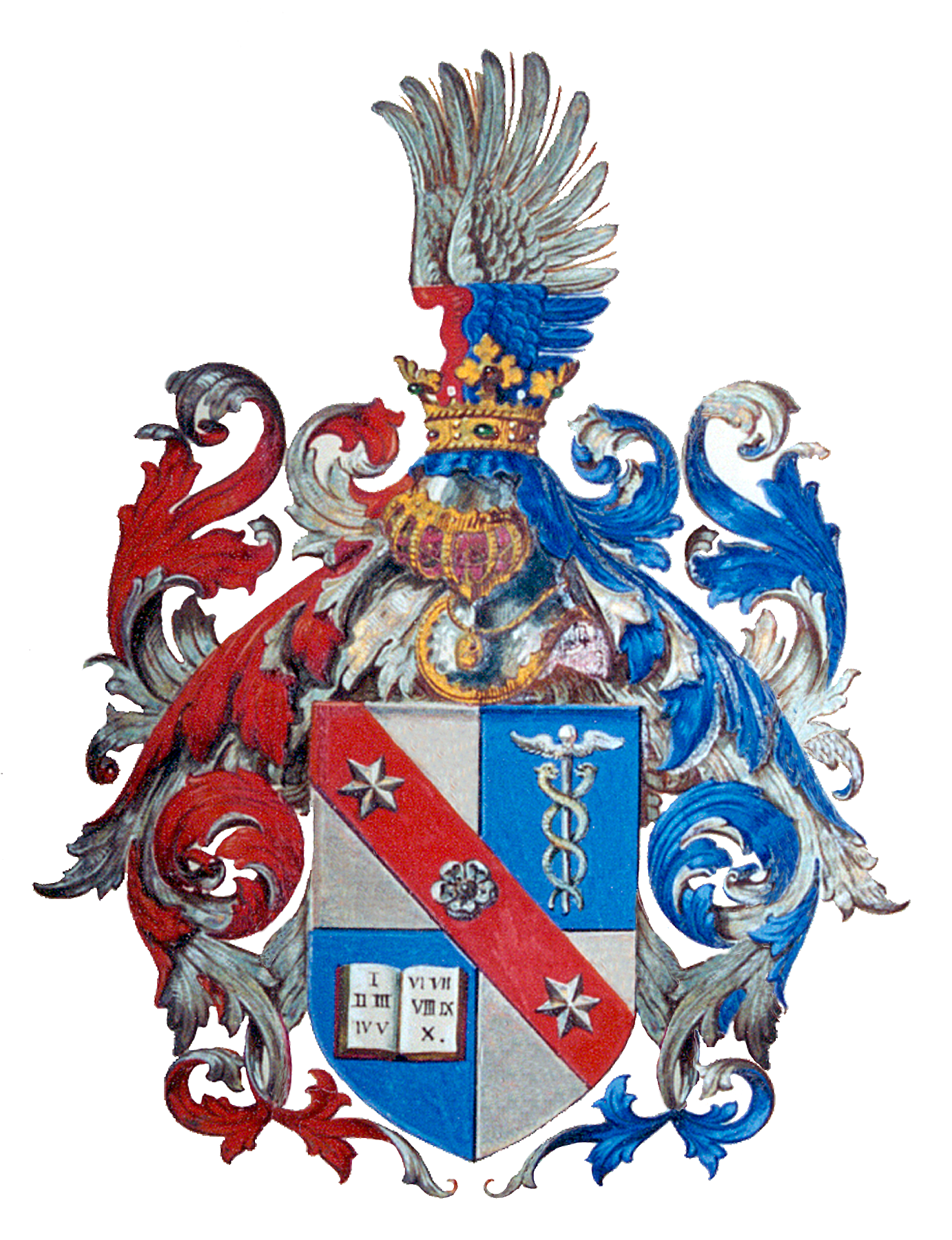 Mises Family Crest, restored by the Mises Institute the from a photograph made in the Mises archives in Moscow. The coat of arms of the Mises family was awarded in 1881 when Ludwig von Mises's great-grandfather Mayer Rachmiel Mises was ennobled by the Emperor Franz Josef I of Austria. Published with permission of Graphic Art and Design area of the Mises Institute. Contact